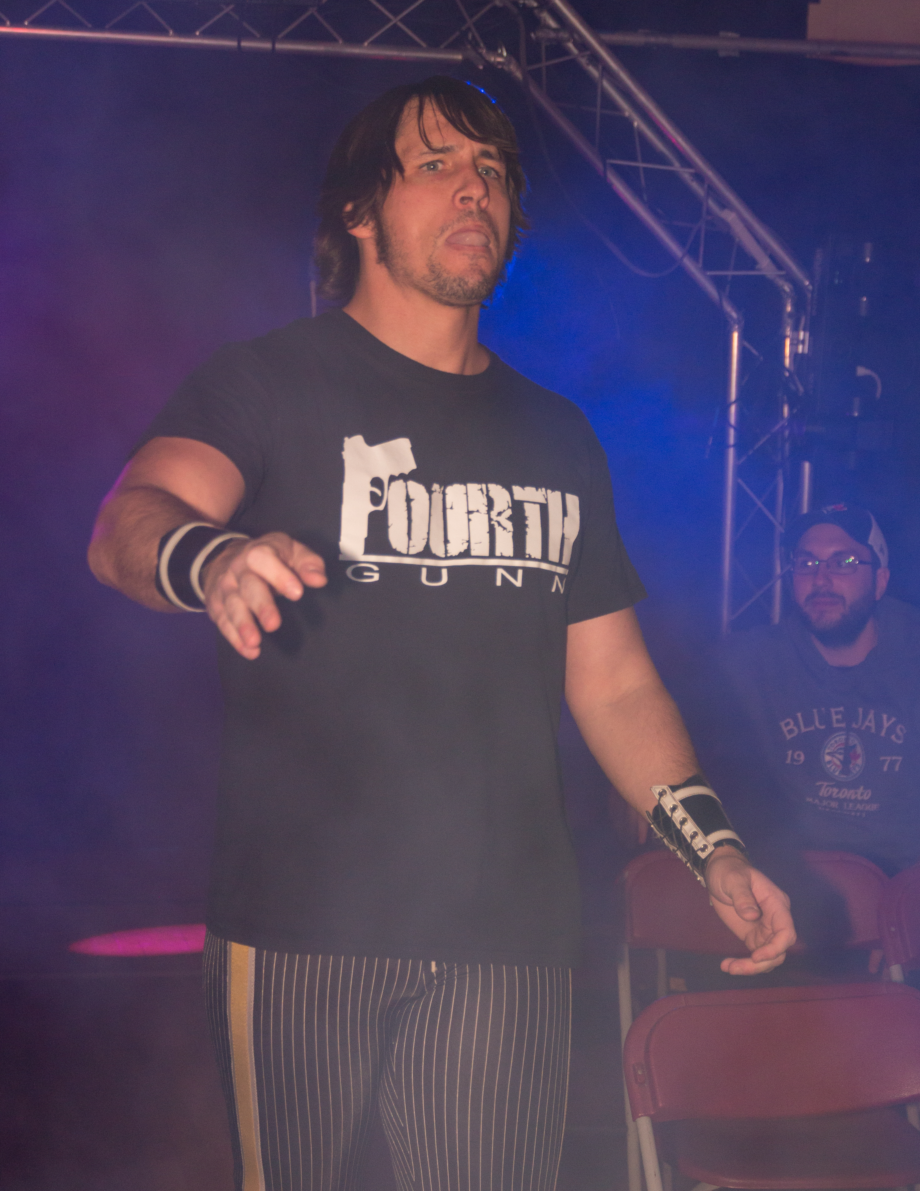 Chuck Taylor making his ring entrance at Smash Wrestling's Something Different show